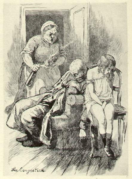 The congestion